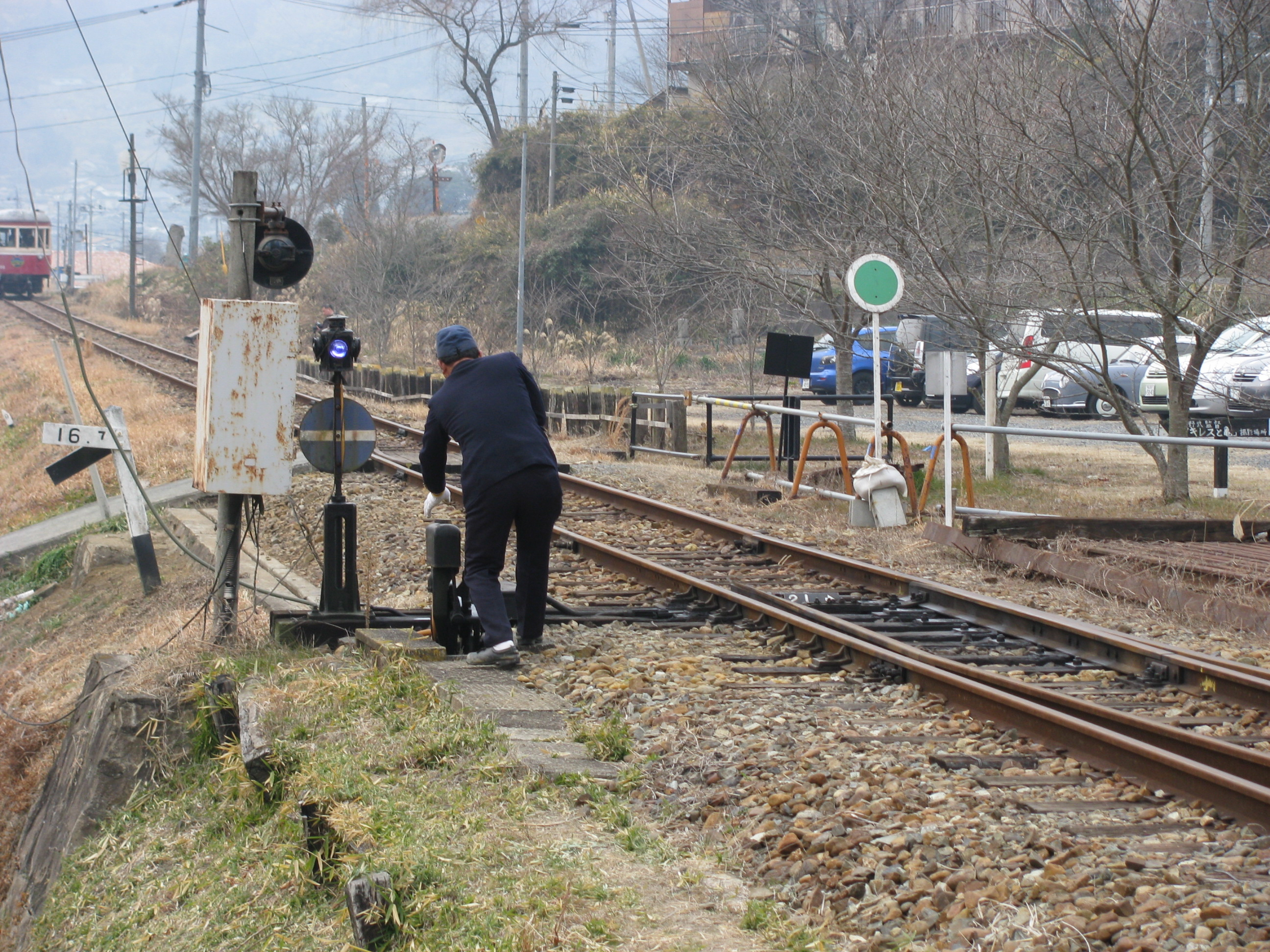 Railroad switch on Katakami Tetsudō (Katakami Railway). Katakami Tetsudō is a discontinued railway line. This place is Misaki, Kume District, Okayama Prefecture, Japan.